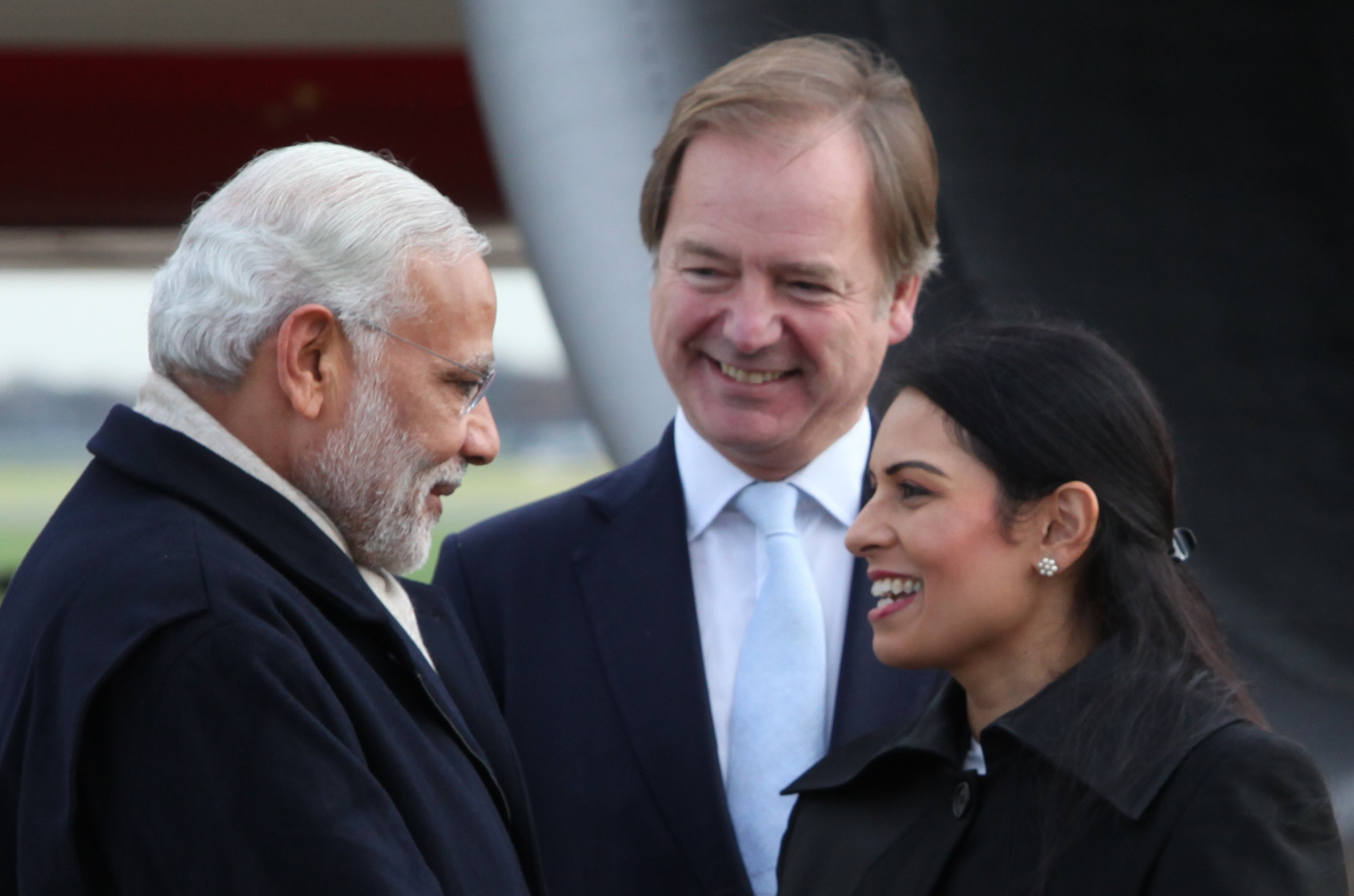 Indian Prime Minister Narendra Modi arrives in London, 12 November 2015.